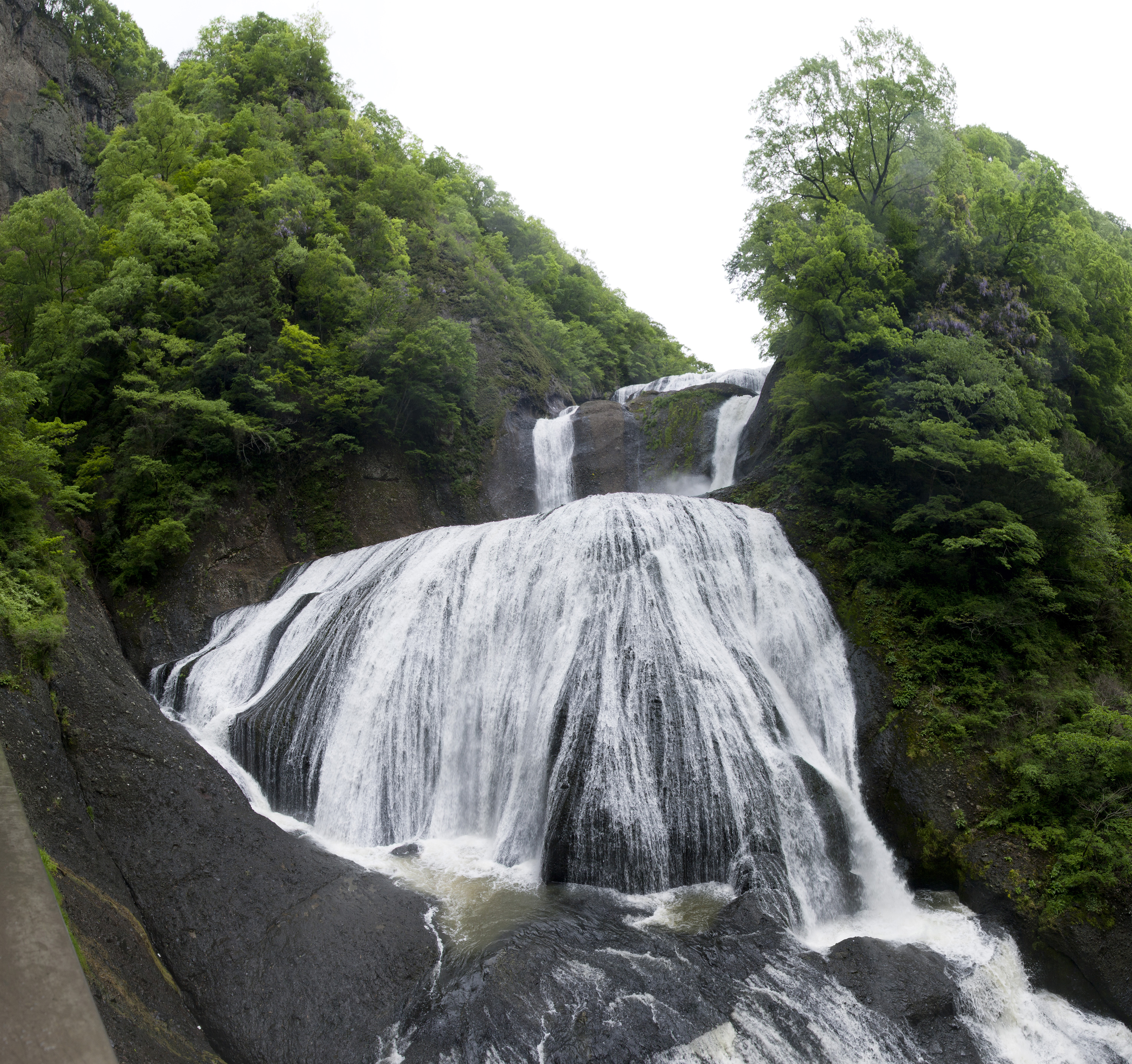 Fukuroda Falls (Fukuroda-no-taki 袋田の滝) in Daigo Town, Ibaraki Pref., Japan